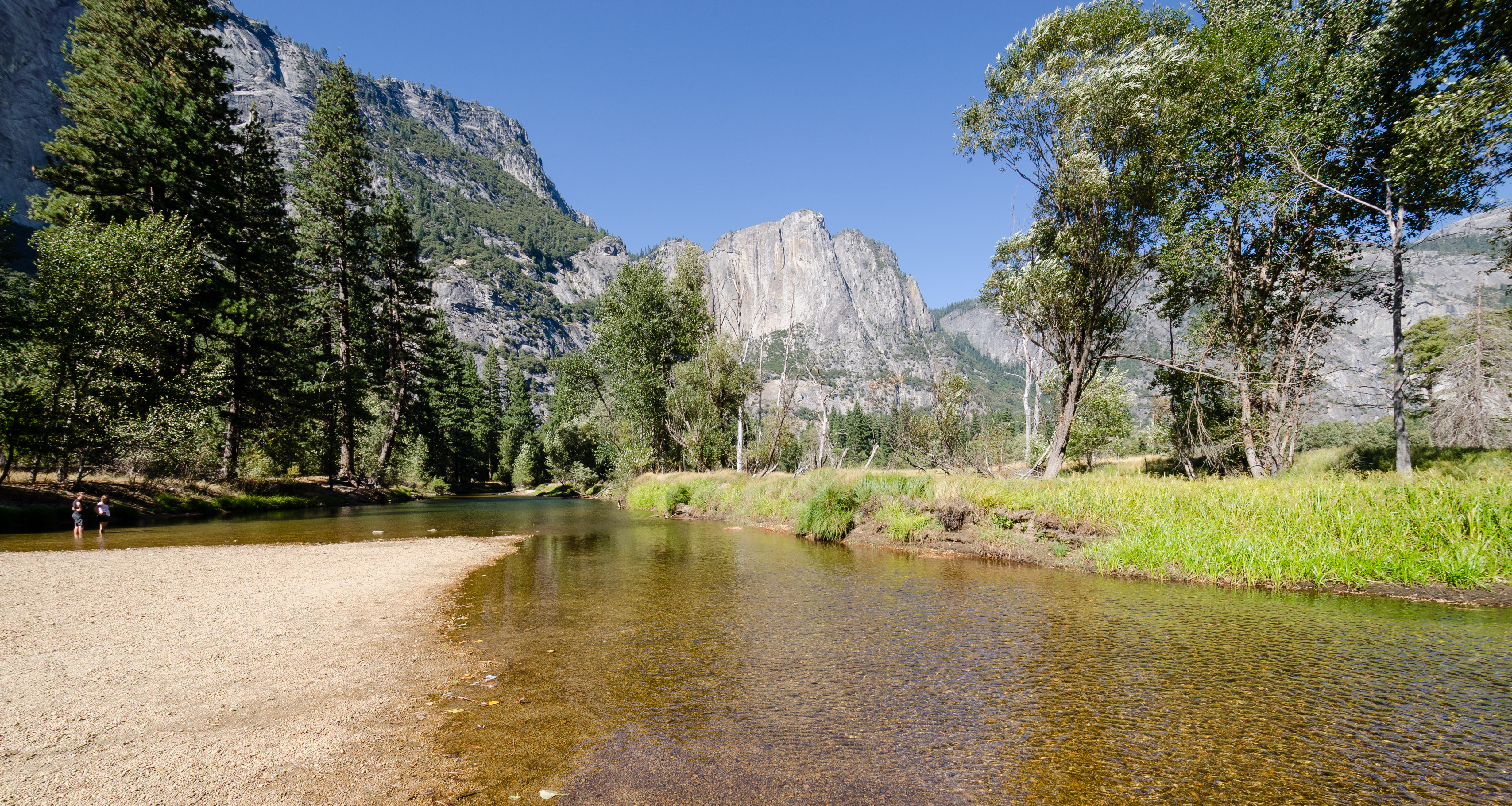 Merced River in Yosemite Valley photographed from Swinging Bridge